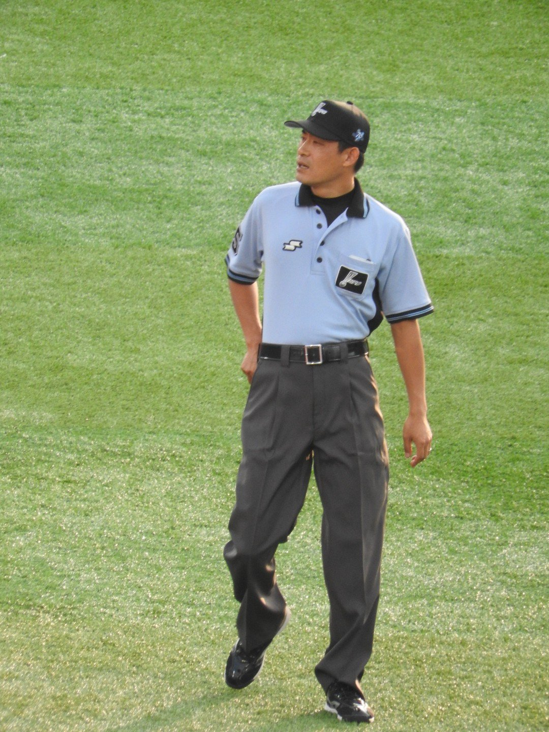 umpire of NPB.